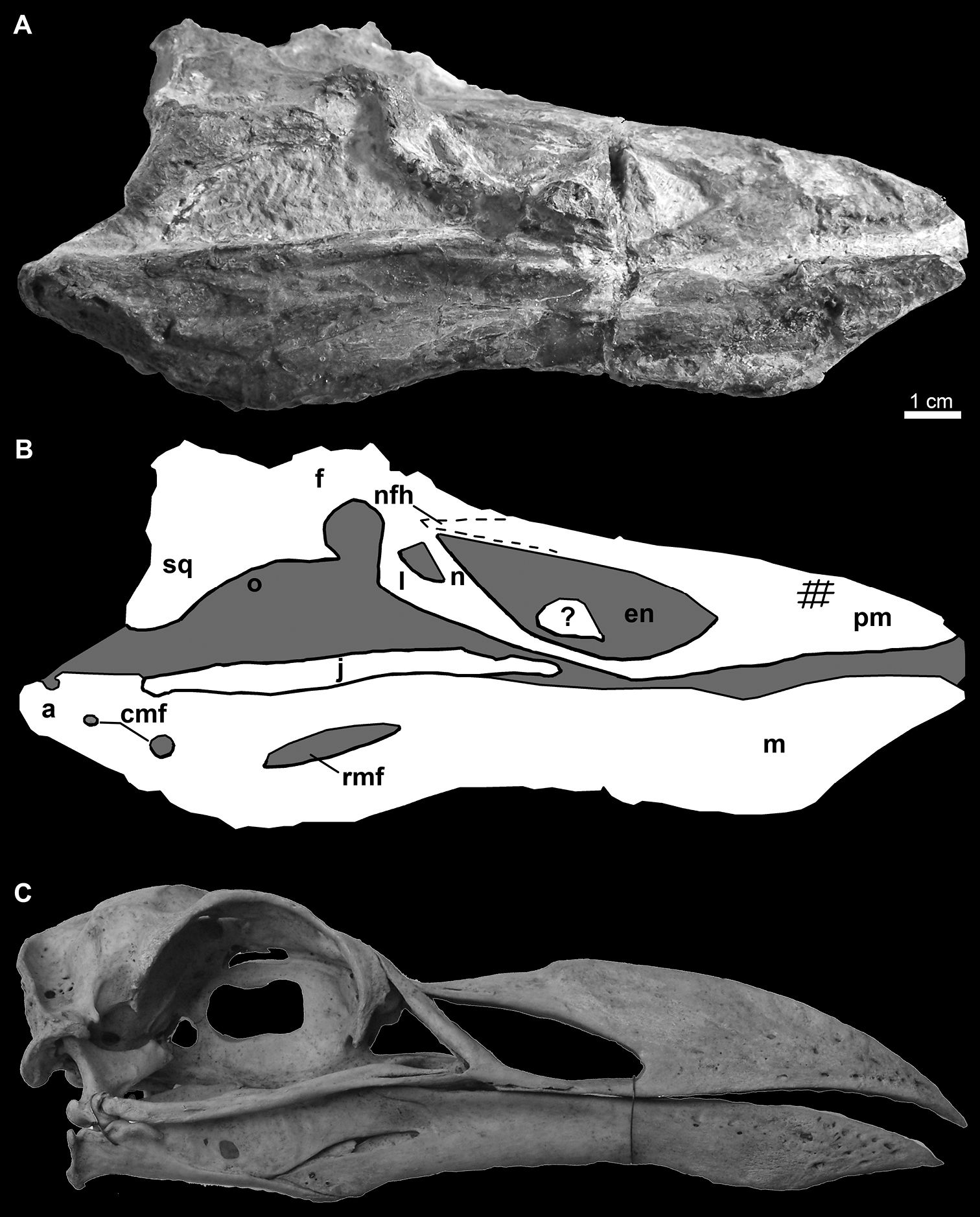 Photograph A and line drawing B of the skull of Miomancalla howardi compared with the skull of Pinguinus impennis (C; not to scale; USNM 346387). Cross-hatched lines on the premaxilla represent abrasion and dotted lines represent approximate reconstruction of incomplete elements. Anatomical abbreviations: a articular cmf caudal mandibular fenestrae en external nares f frontal j jugal l lacrimal m mandible n nasal pm premaxilla nfh nasofrontal hinge o orbit rmf rostral mandibular fenestra sq squamosal; ? unidentified bone fragment.